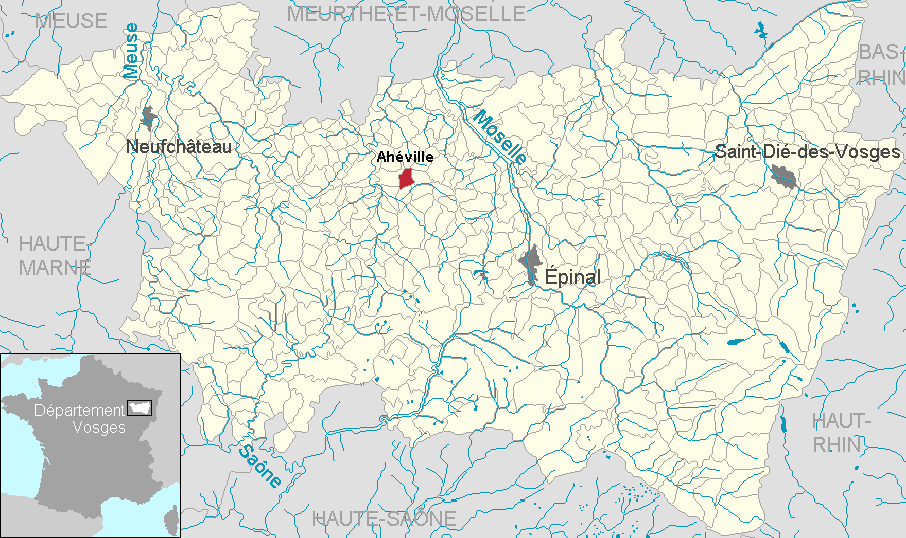 Ahéville in the department of Vosges, Lorraine, France